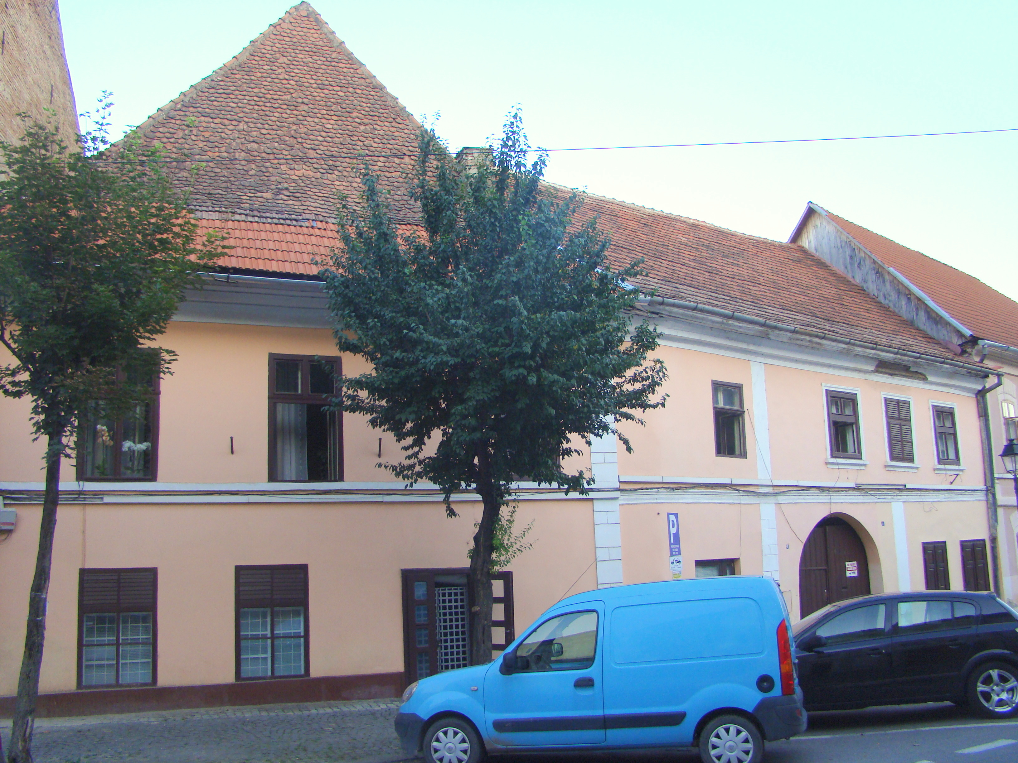 House, historic monument, in Bistrița, Nicolae Titulescu street 9-11